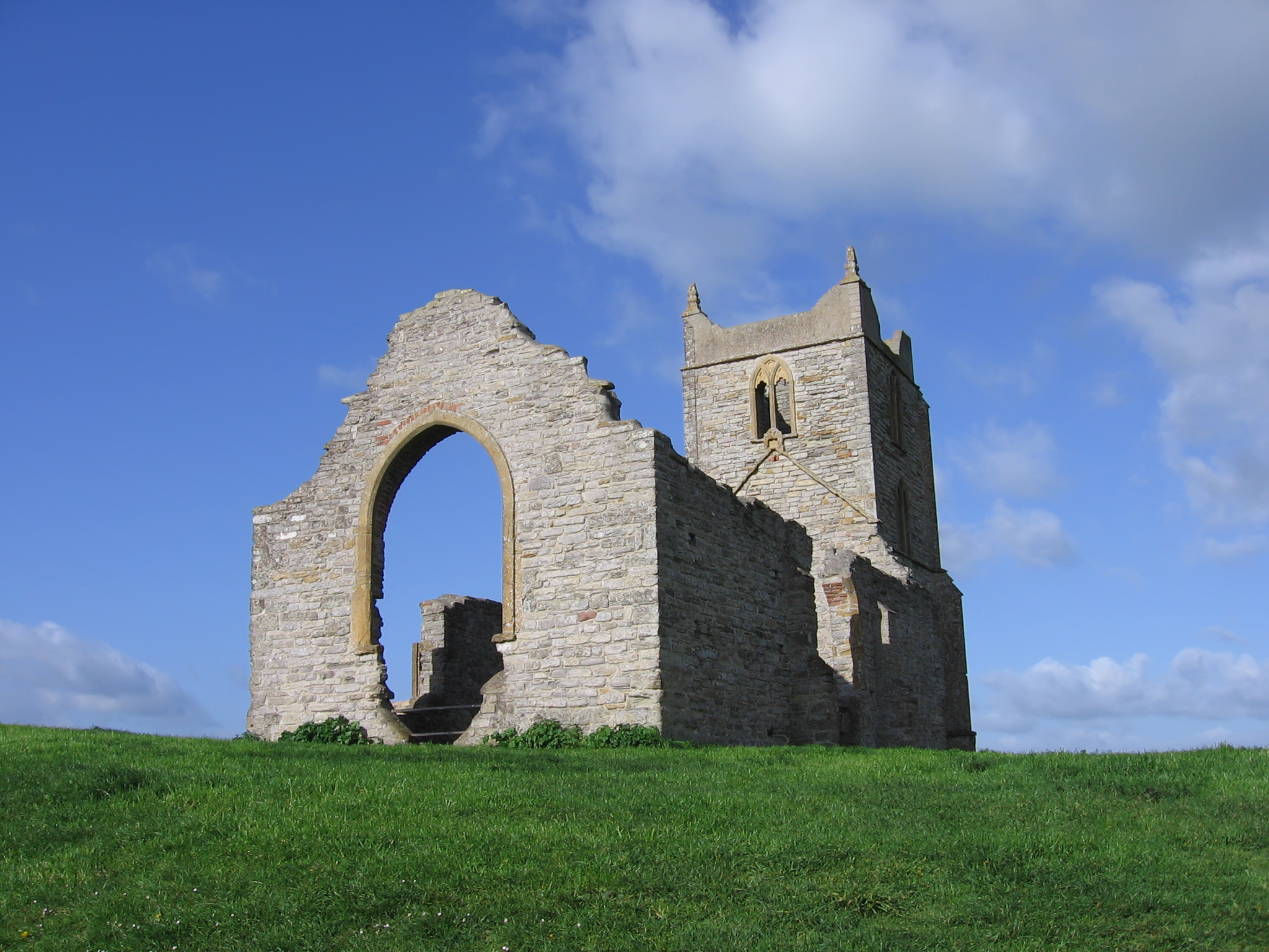 A view of the ruins of St Michael's Church, from near the top of Burrow Mump. Burrow Mump is located in the village of Burrowbridge, in Somerset, UK.